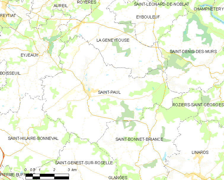 Map of French municipality Saint-Paul